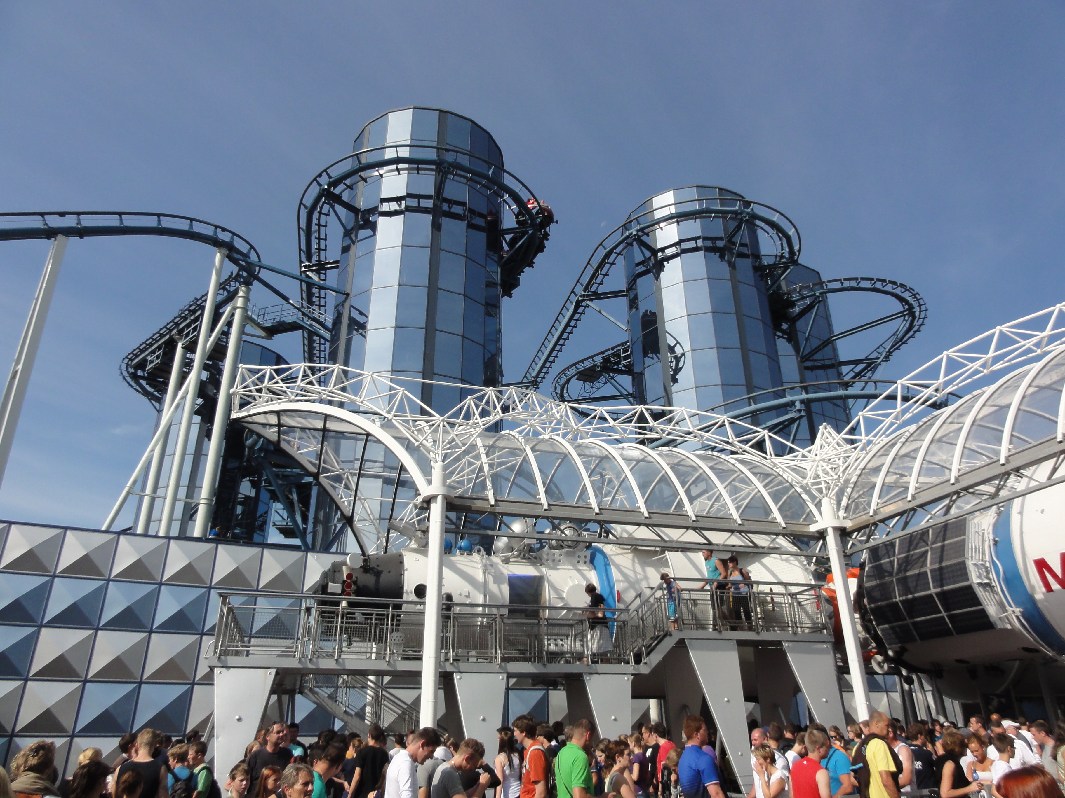 Euro-Mir, Europa-Park, Rust, Baden-Württemberg, Germany.